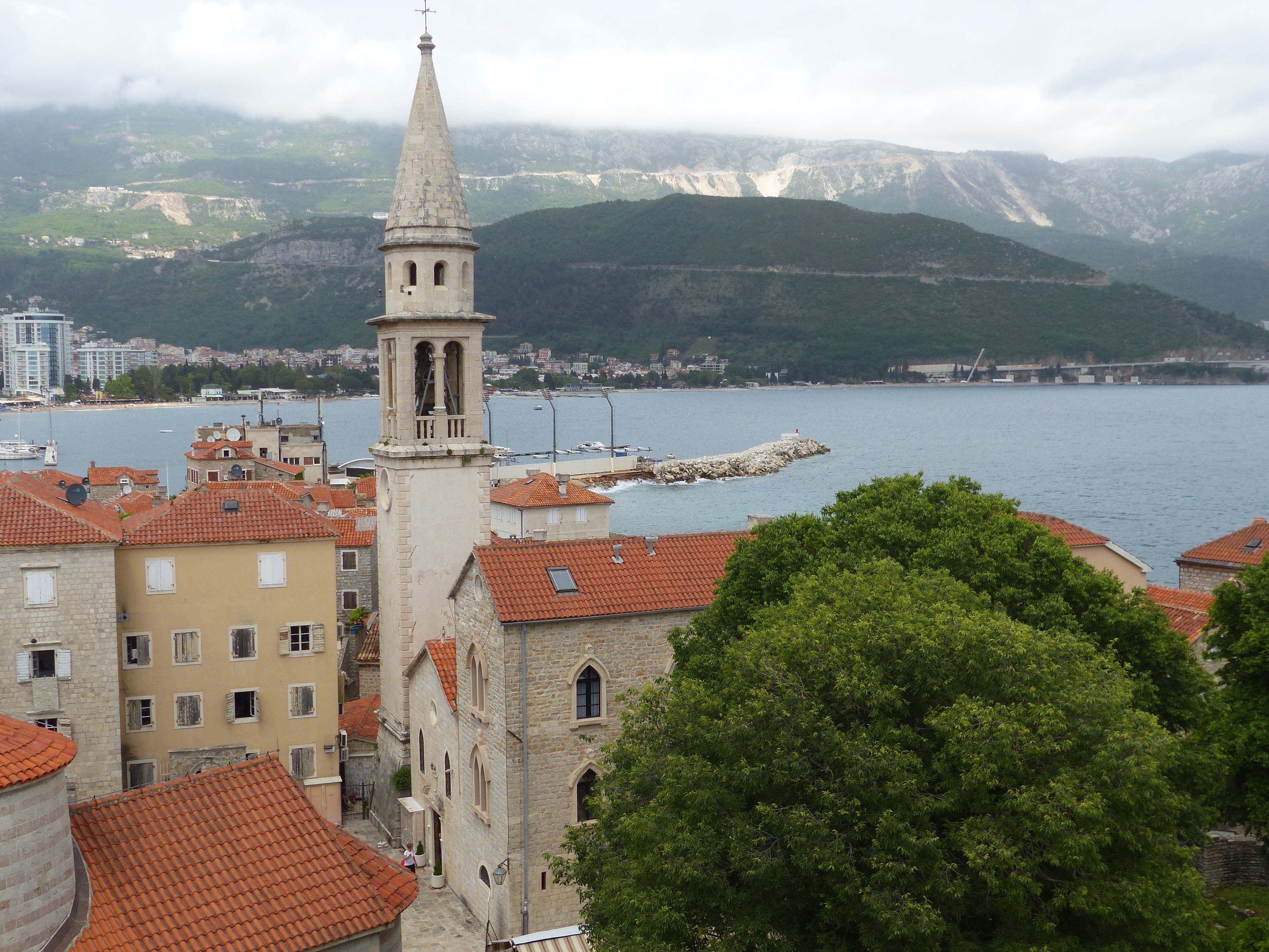 Budva ( Montenegro ). Church of Saint Ivan seen from the citadel.